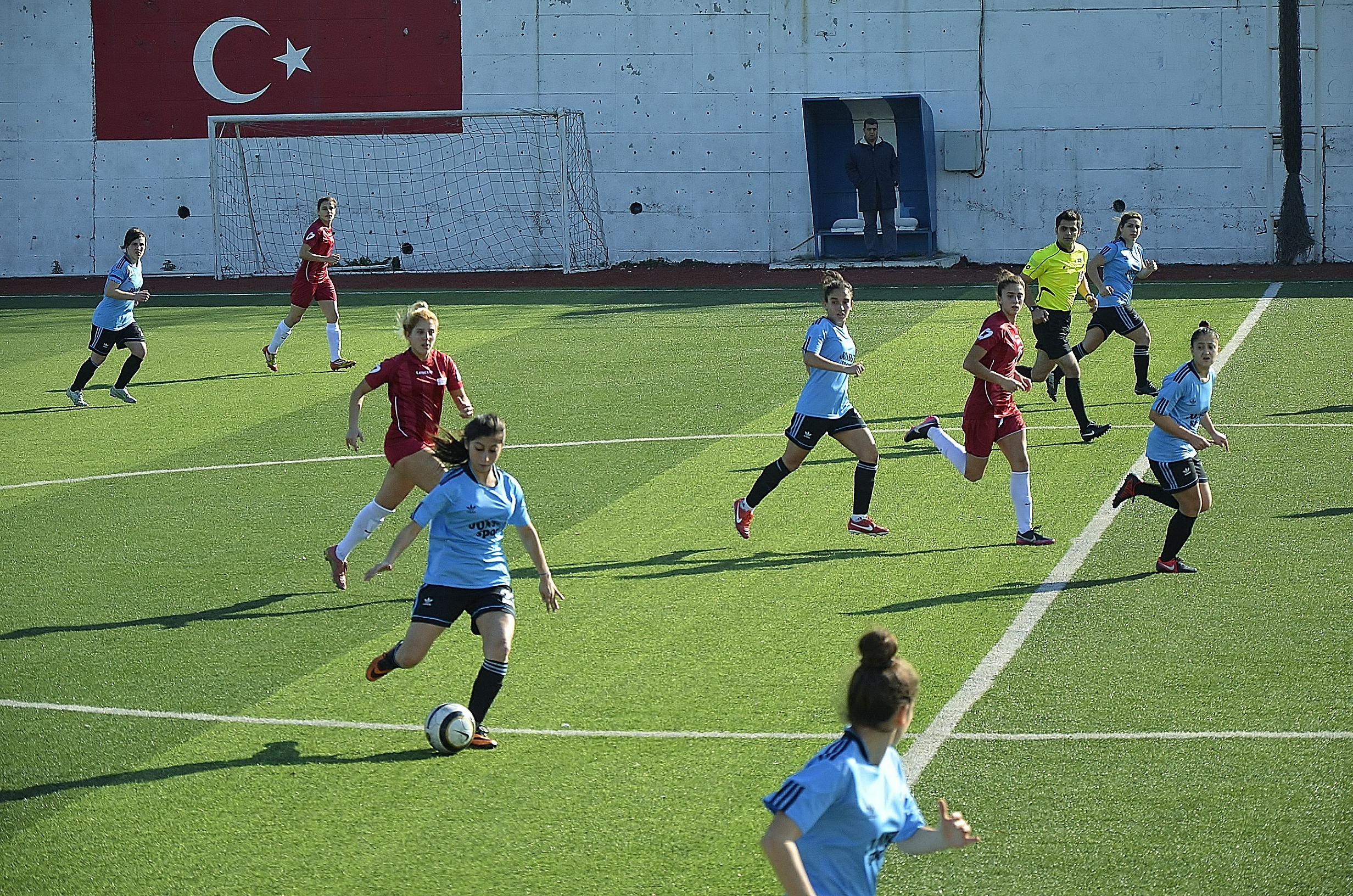 Ataşehir Belediyespor vs MarmaraÜniversitesi Spor on January 19, 2014